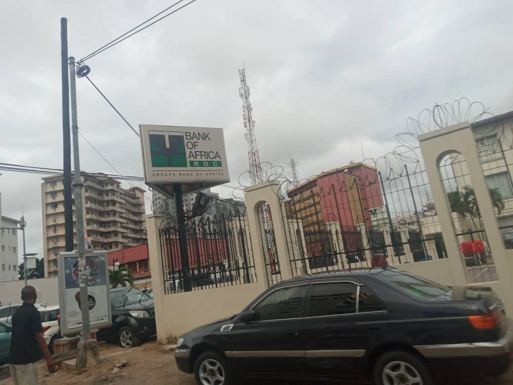 This is an image with the theme "Africa on the Move or Transport" from: Democratic Republic of the Congo